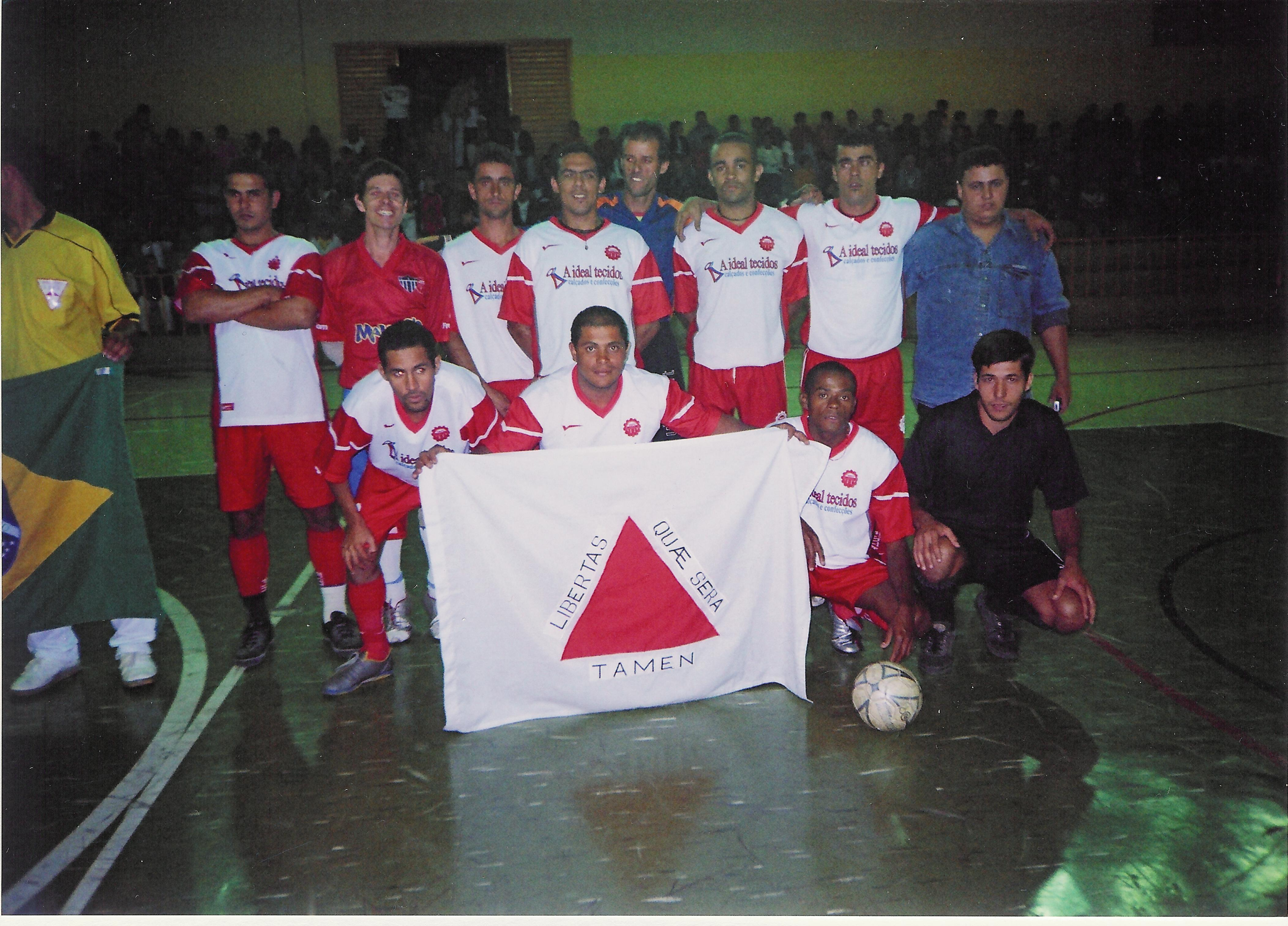 Vilense, Futsal Gold Cup Champion 2005